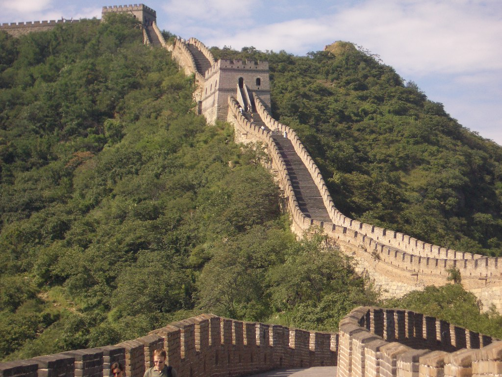 The Great Wall of China at Mutianyu